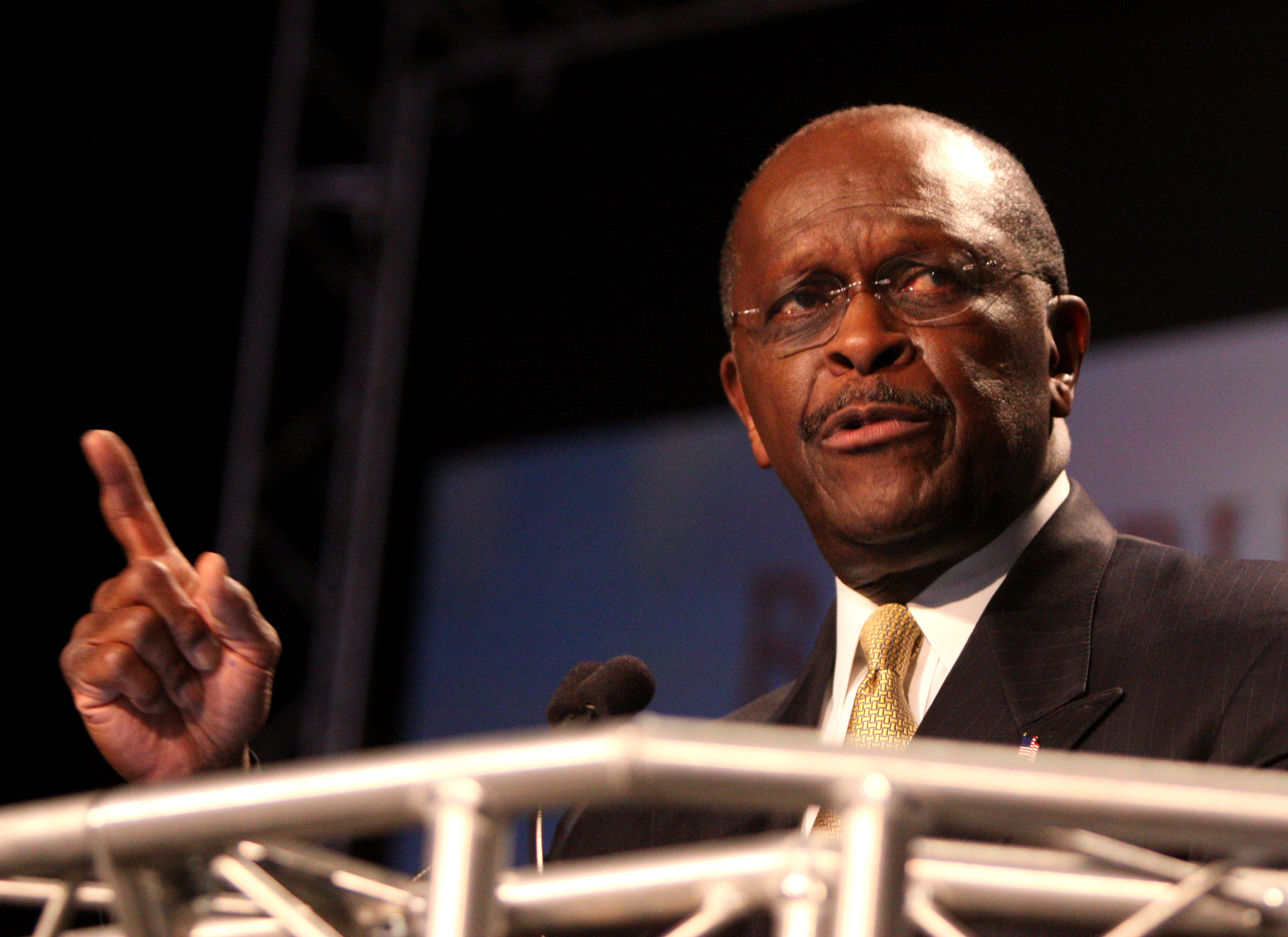 Herman Cain at the Ames Straw Poll in Ames, Iowa.